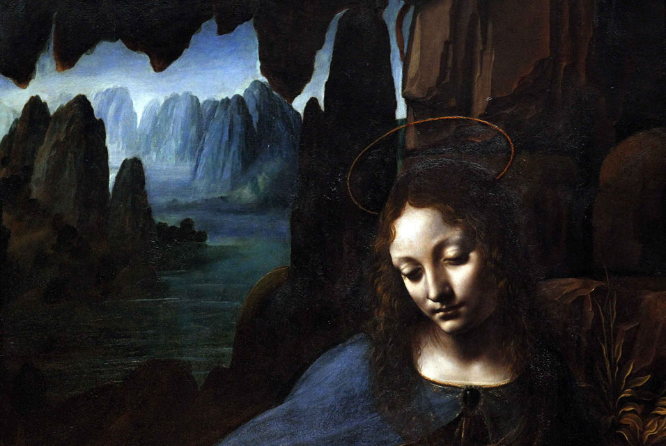 detail of The Virgin of the Rocks by Leonardo da Vinci), at the National Gallery in London after 2010 conservation